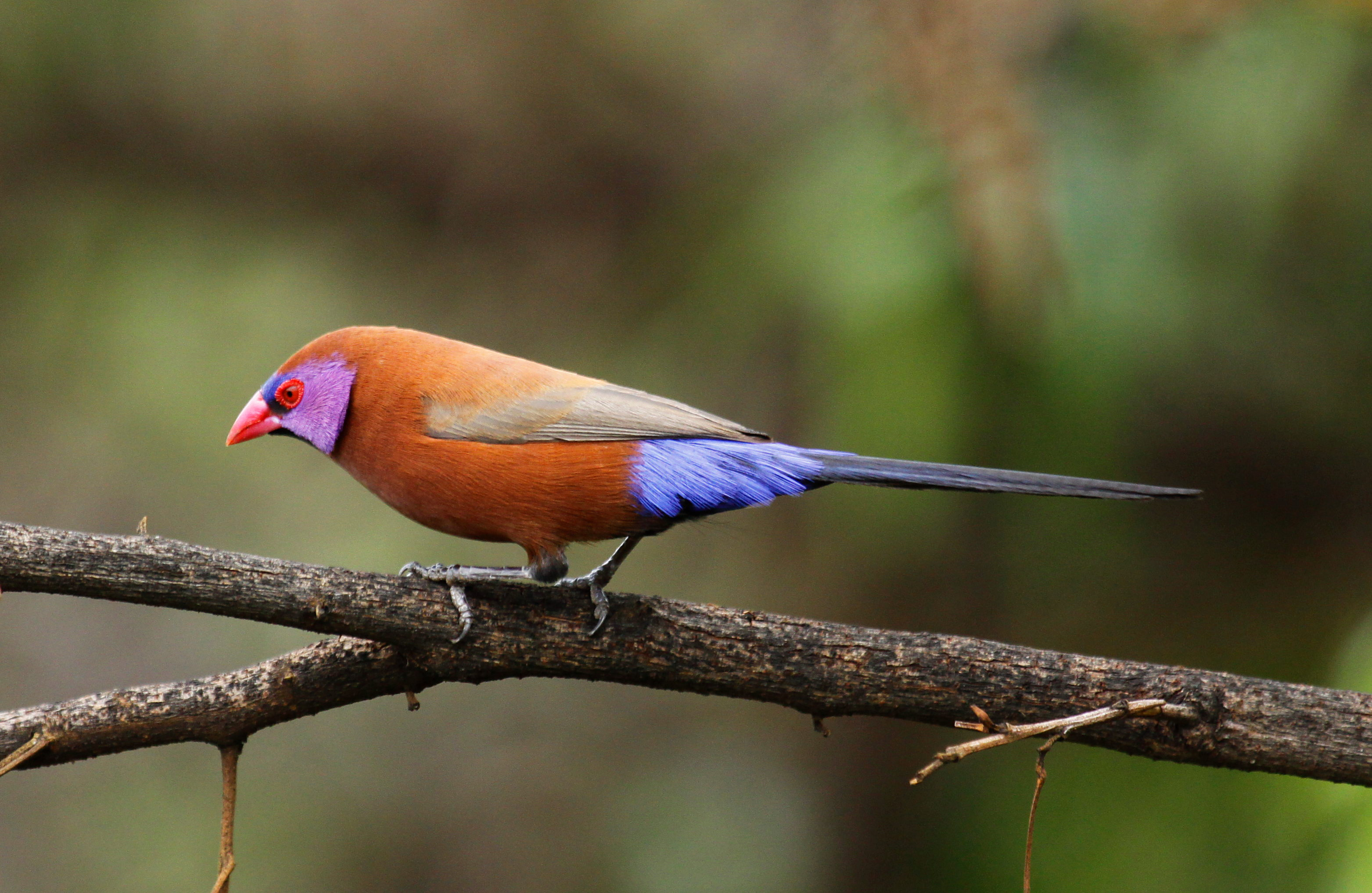 Violet-eared waxbill, Uraeginthus granatinus, at Pilanesberg National Park, Northwest Province, South Africa (male)